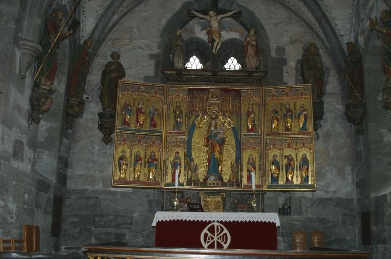 Altar of St. Mary's Church in Bergen